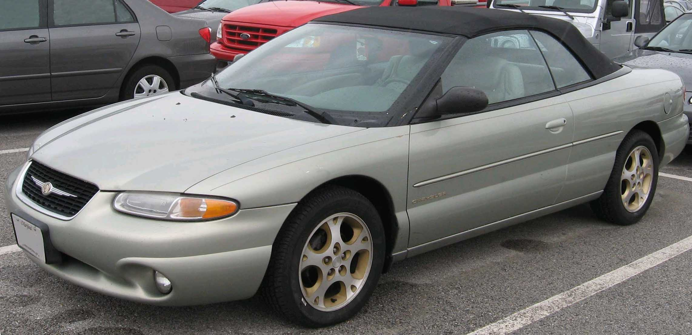 1999-2000 Chrysler Sebring photographed in USA. Exterior Color: Light Cypress Green. Interior Color: Silver Fern.